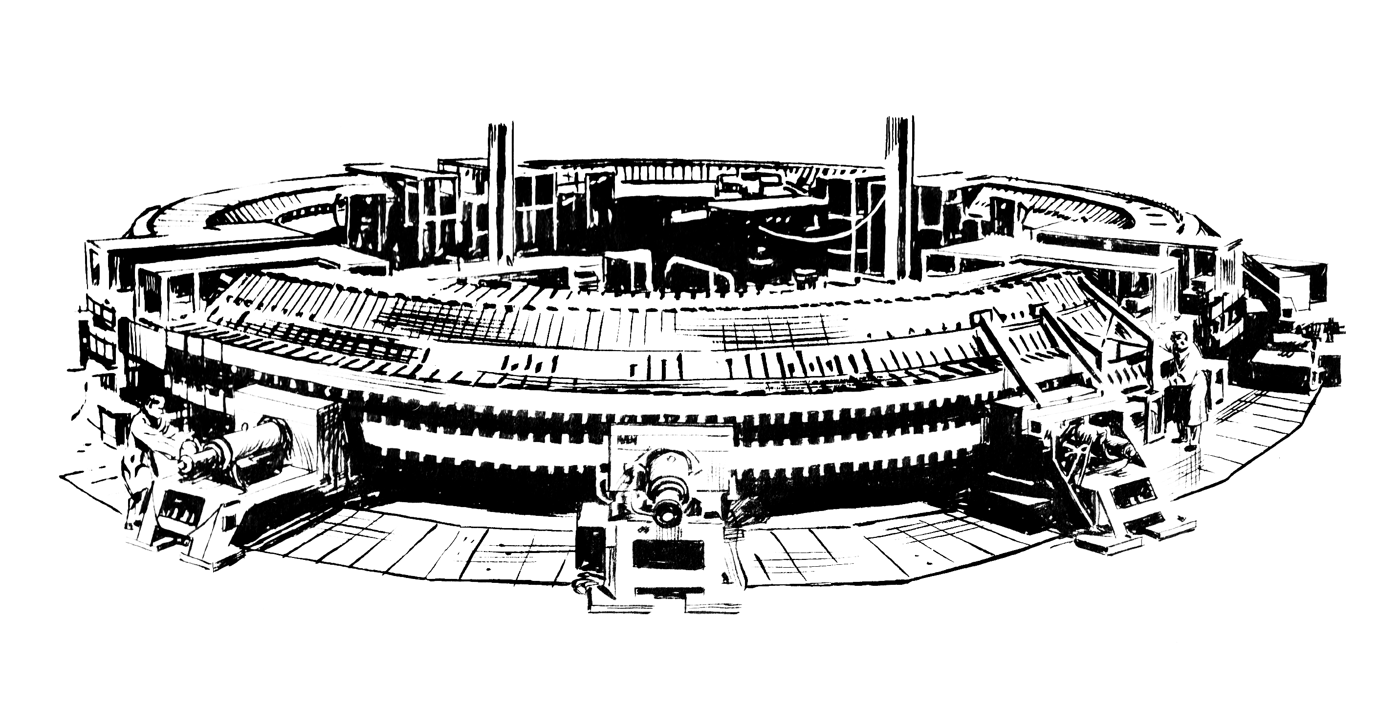 Line art drawing of a cosmotron.